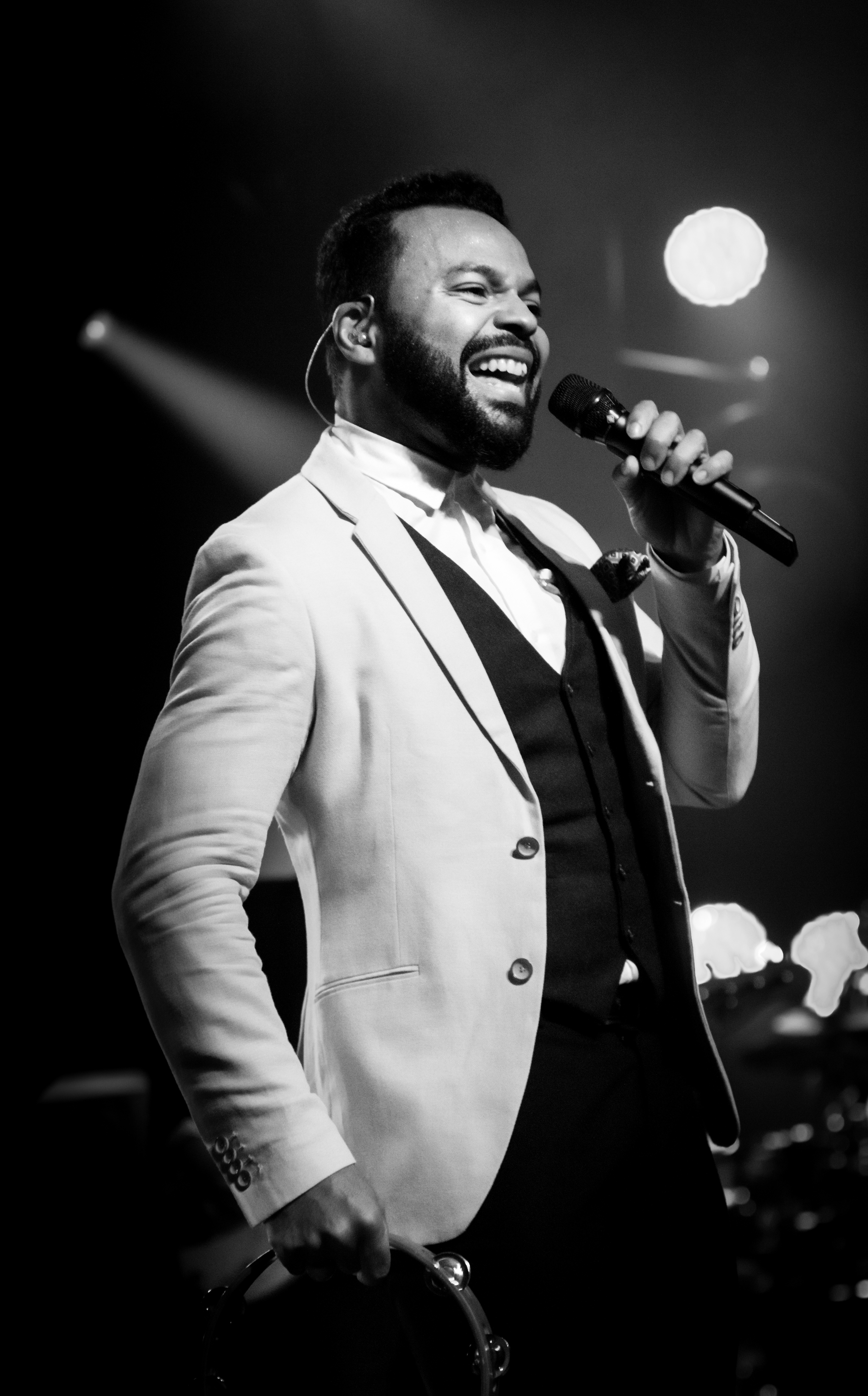 Myles Sanko - Leverkuener Jazztage 2016